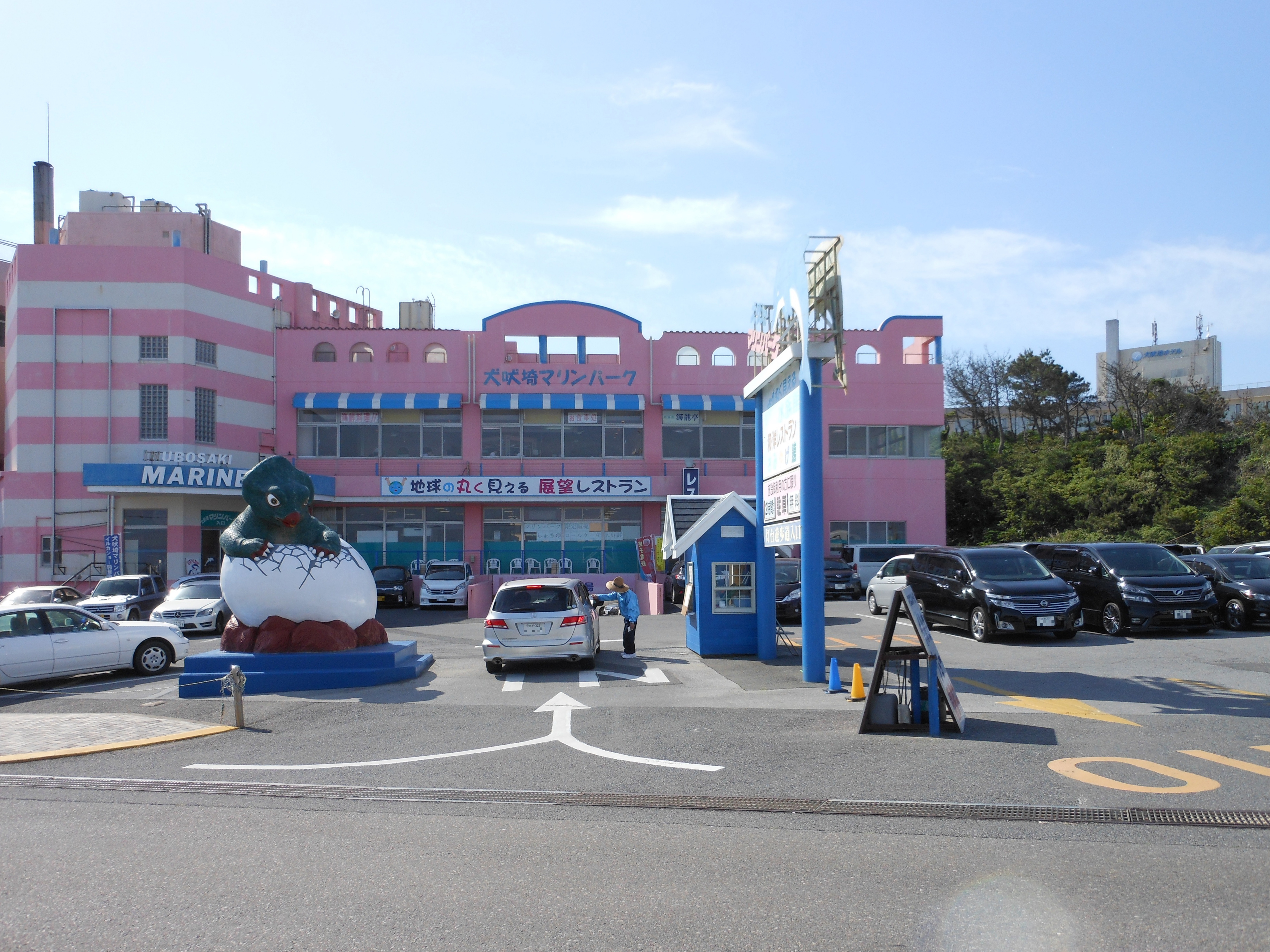 Inubosaki Marine Park in Choshi, Chiba Prefecture, Japan